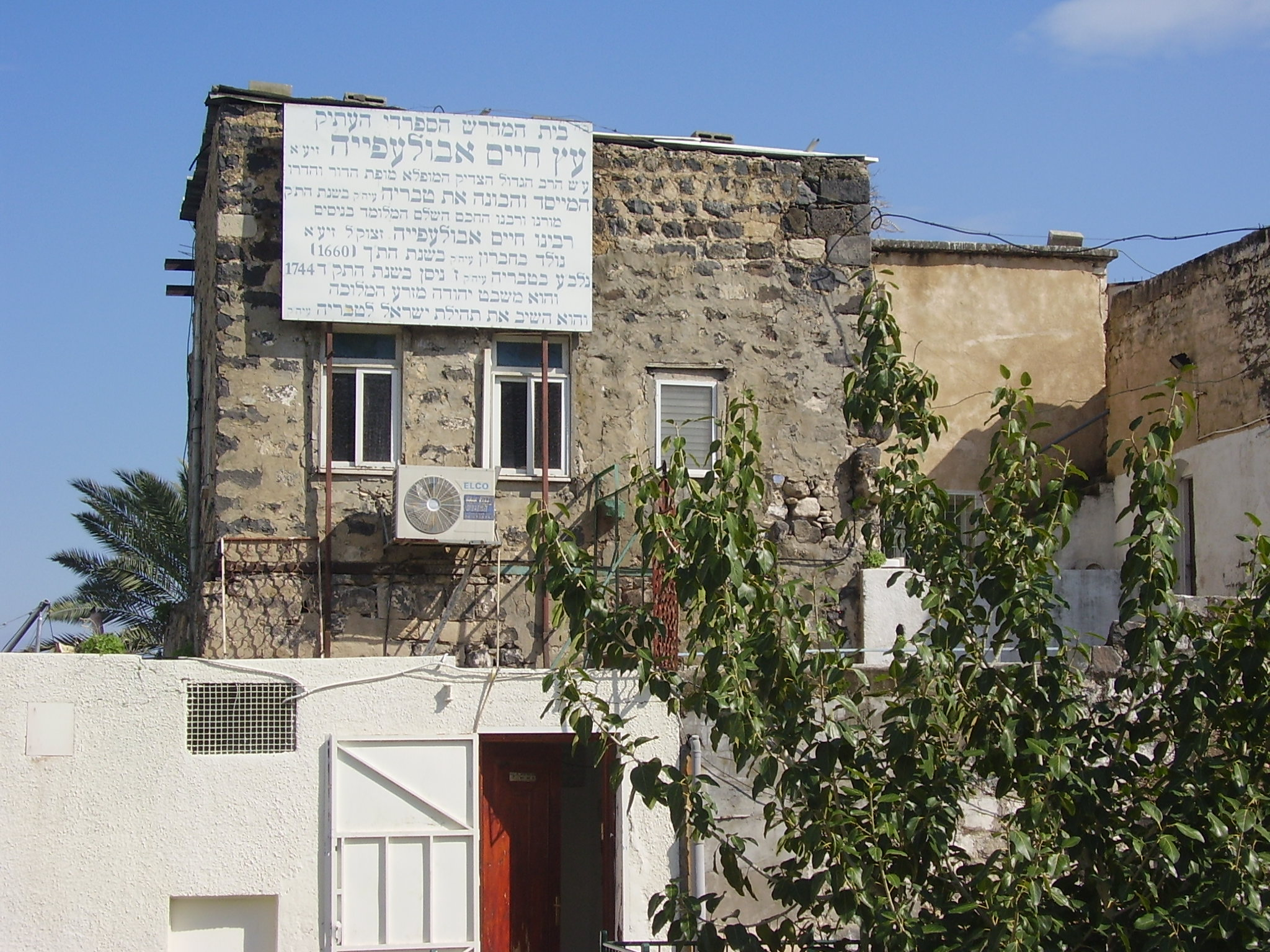 Etz Hachayim Synagogue in Tiberias